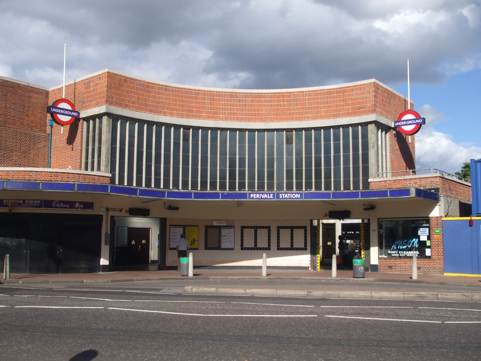 Perivale tube station, July 2008, just after recent refurbishment work to the upper facade.